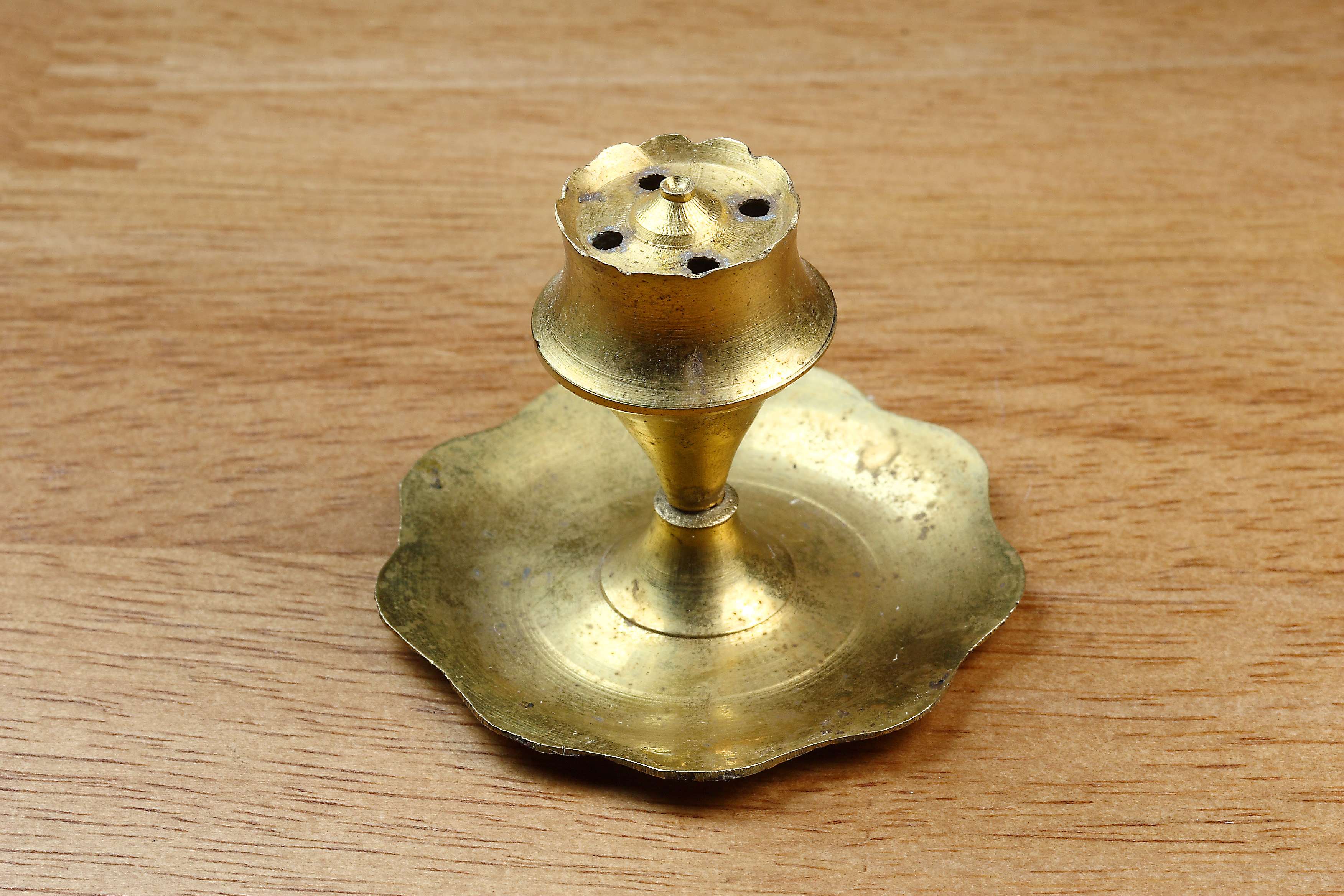 Incense stand (with 4 holes to insert the incense sticks) used to worship Hindu Gods.